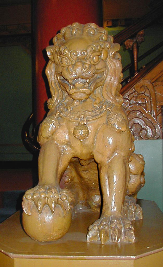 Imperial guardian lions in the 5th Avenue Theatre, Seattle, Washington.